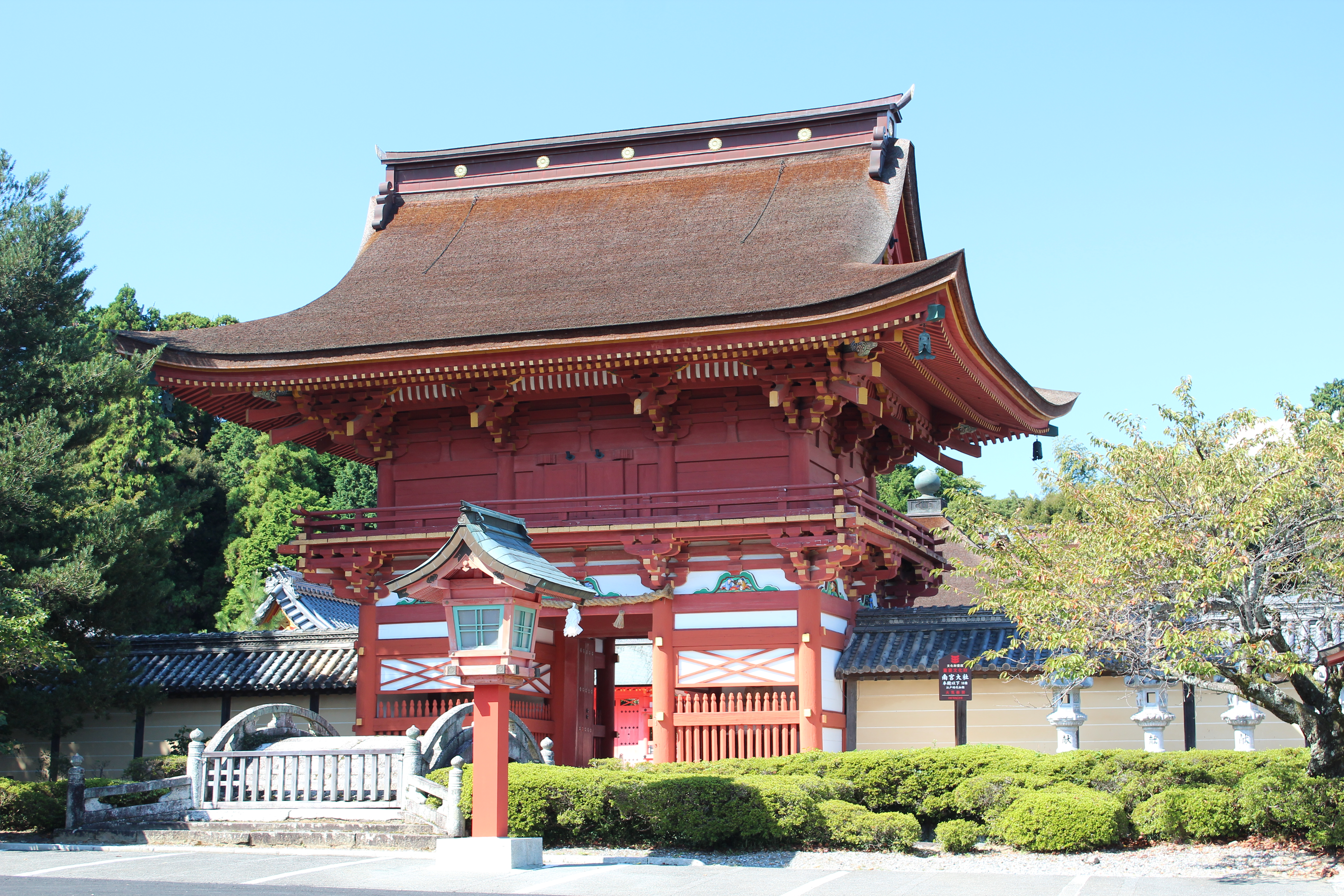 Rōmon of Nangu-taisha in Tarui, Gifu prefecture, Japan.